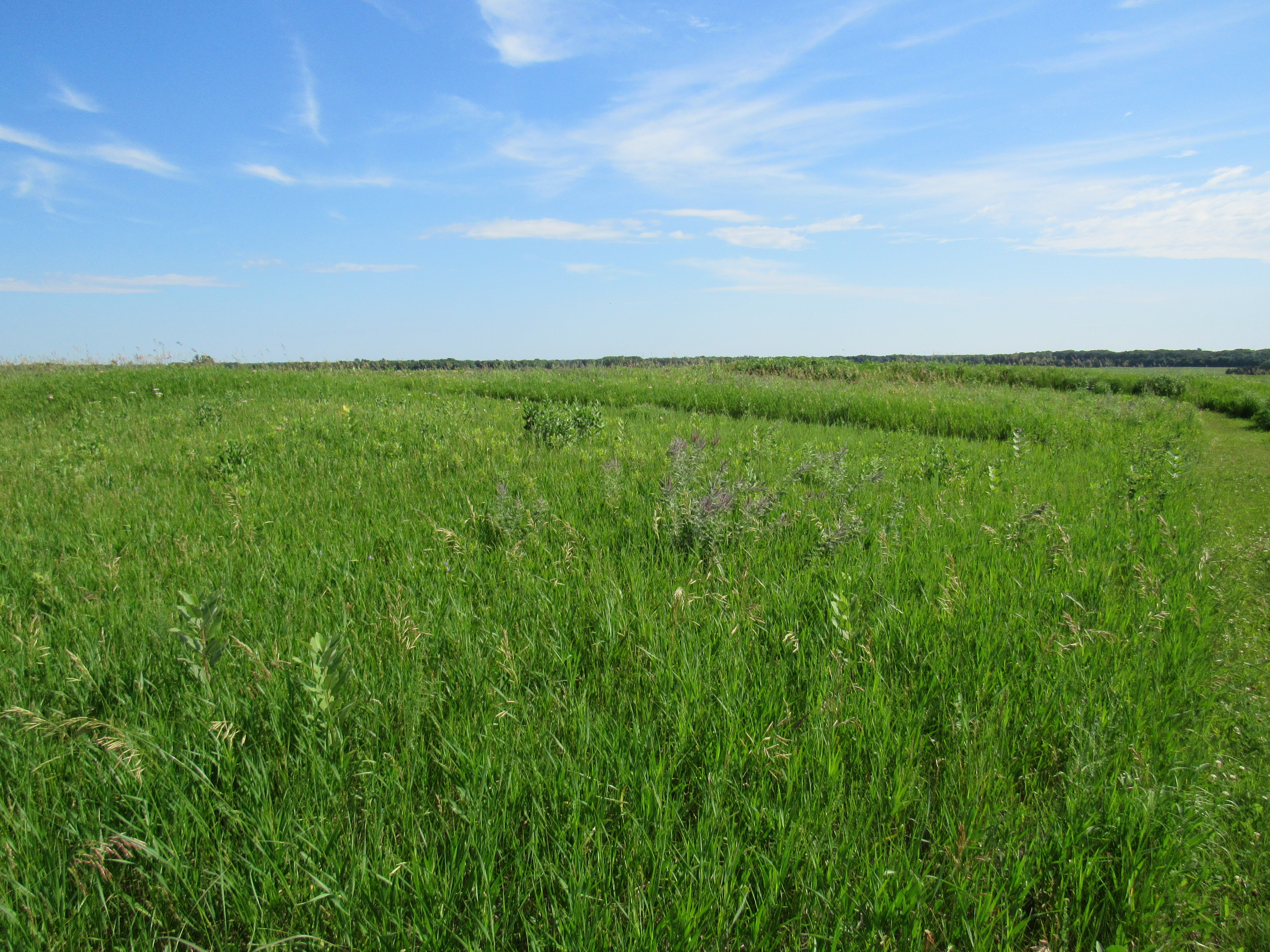 Interior of Fort Juelson in Tordenskjold Township, Otter Tail County, Minnesota